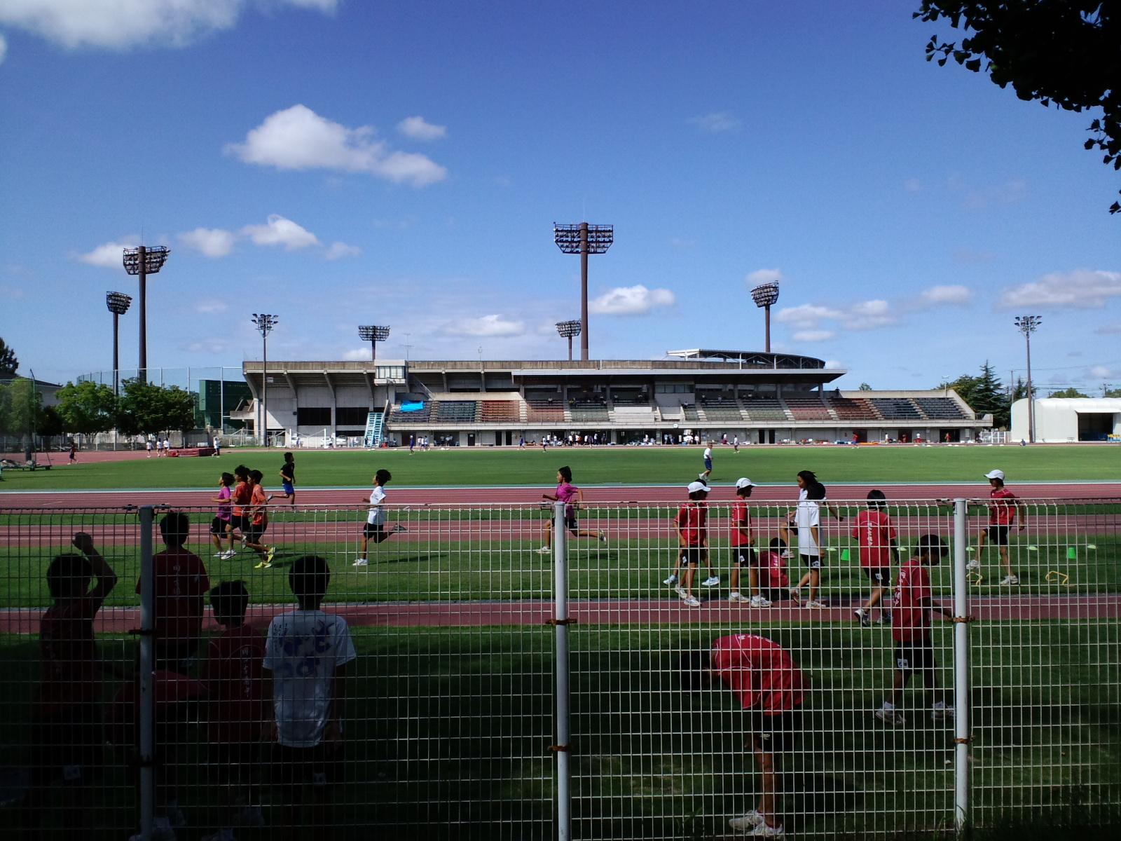 Park of movement in Kurashiki athletic field